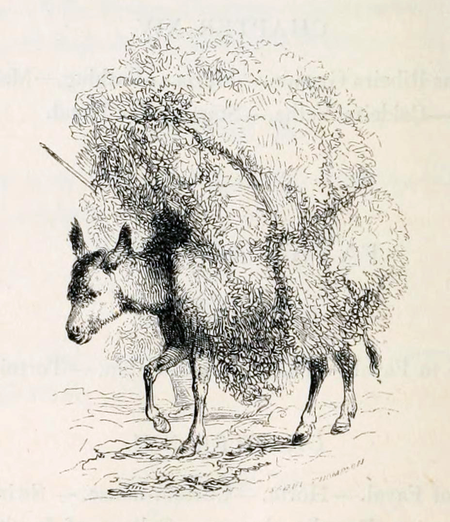 "St. Michaels ass laden with heath and firewood", illustration of a donkey on the island of São Miguel in the Azores, from: Joseph Bullar, Henry Bullar (1841). A winter in the Azores; and a summer at the baths of the Furnas. London: J. Van Voorst.